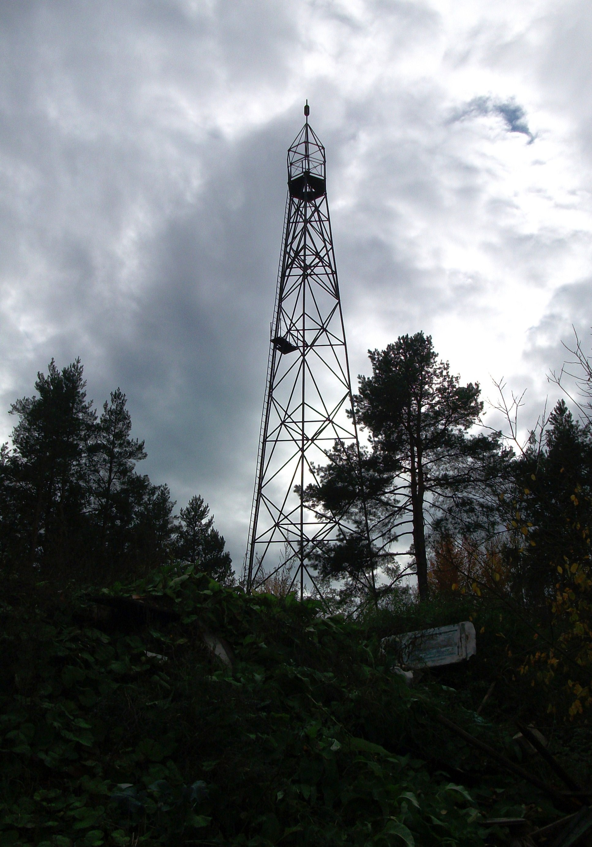 Triangulator at the highest point of Dokshytsy Upland